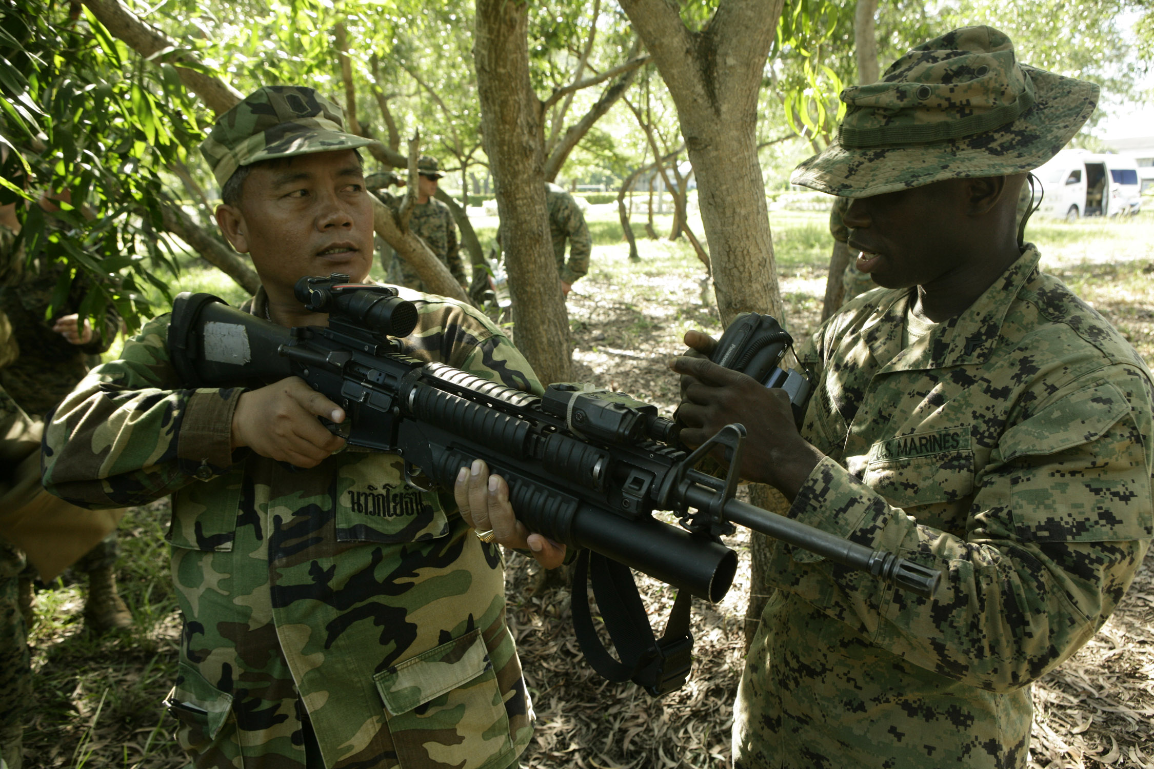 SAMAESAN, Thailand (July 10, 2009) U.S. Marine Cpl. Folleh Tamba, a squad leader with 1st Battalion, 24th Marine Regiment, familiarizes a Royal Thai Marine from the 3rd Royal Thai Infantry Battalion on various components and functions added to an M-16/203mm grenade launcher during a bilateral field weapons exhibition. The display was conducted as part of Cooperation Afloat Readiness and Training (CARAT) Thailand 2009. CARAT is a series of bilateral exercises held annually in Southeast Asia to strengthen relationships and enhance the operational readiness of the participating forces. (U.S. Marine Corps photo by Lance Cpl. Stuart Wegenka/ Released)